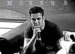 Dylan Horman